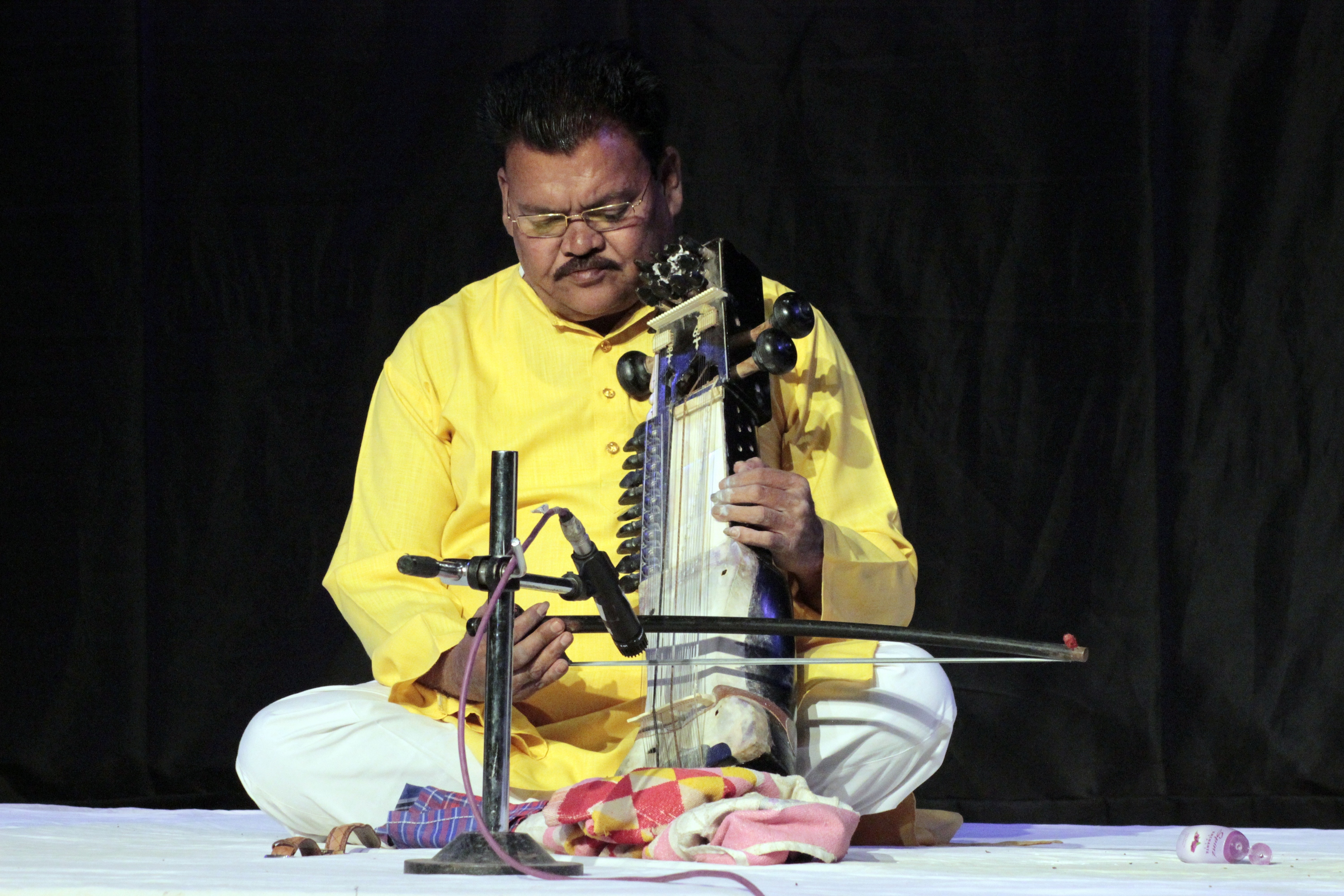 Sarngi Player in India